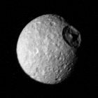 Original Caption Released with Image: The cratered surface Saturn's moon Mimas is seen in this image taken by Voyager 1 on Nov. 12, 1980 from a range of 425,000 kilometers (264,000 miles). Impact craters made by the infall of cosmic debris are shown; the largest is more than 100 kilometers (62 miles) in diameter and displays a prominent central peak. The smaller craters are abundant and indicate an ancient age for Mimas's surface. The Voyager Project is managed for NASA by the Jet Propulsion Laboratory, Pasadena, Calif.